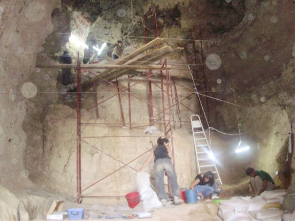 Azykh (Azokh) Cave. Hadrut district, Republic of Mountainous Karabakh (Artsakh) / Khojavend district, Azerbaijan)